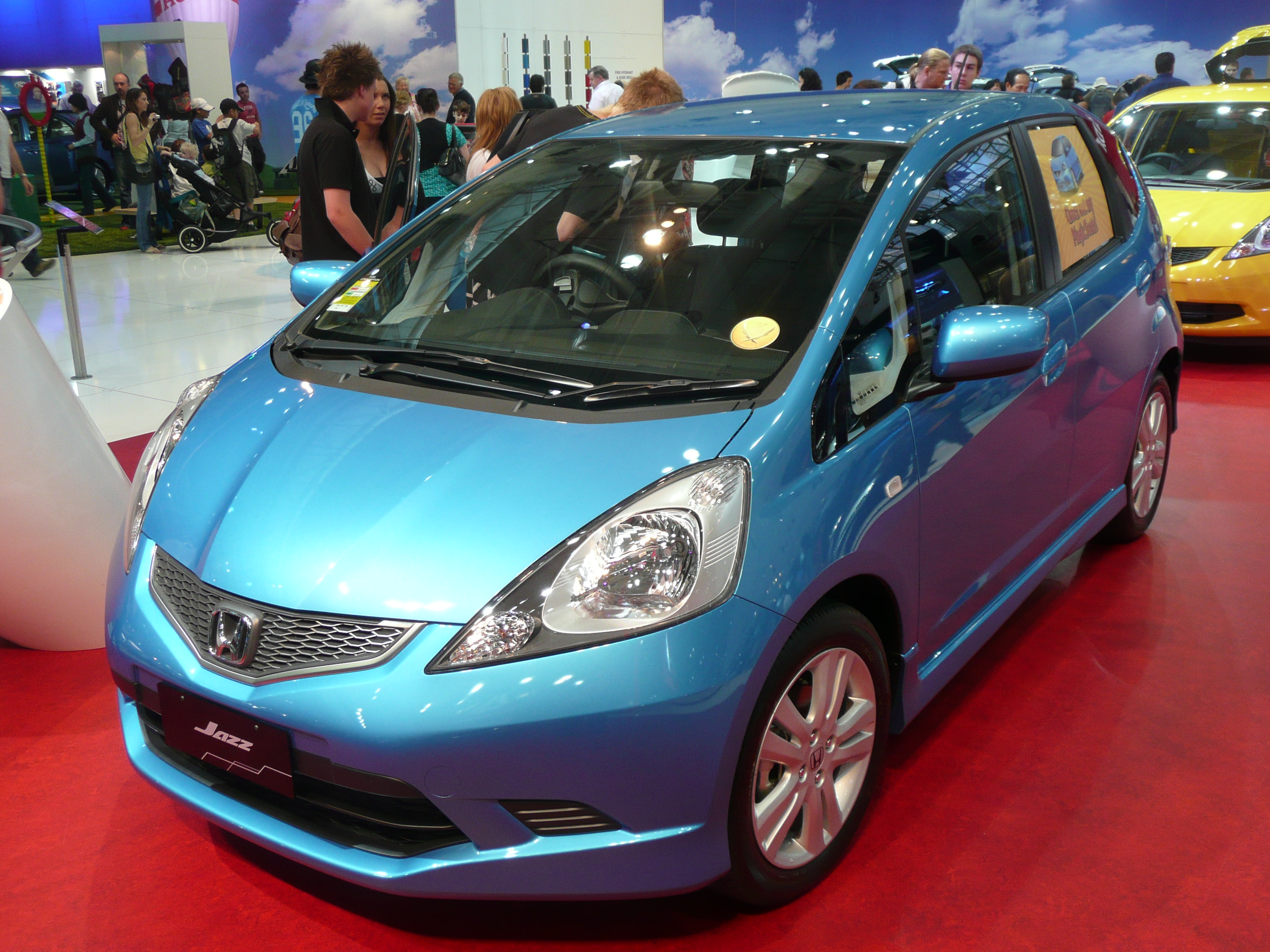 2008 Honda Jazz (GE MY09) VTi-S hatchback. Photographed at the 2008 Australian International Motor Show, Sydney, New South Wales, Australia.